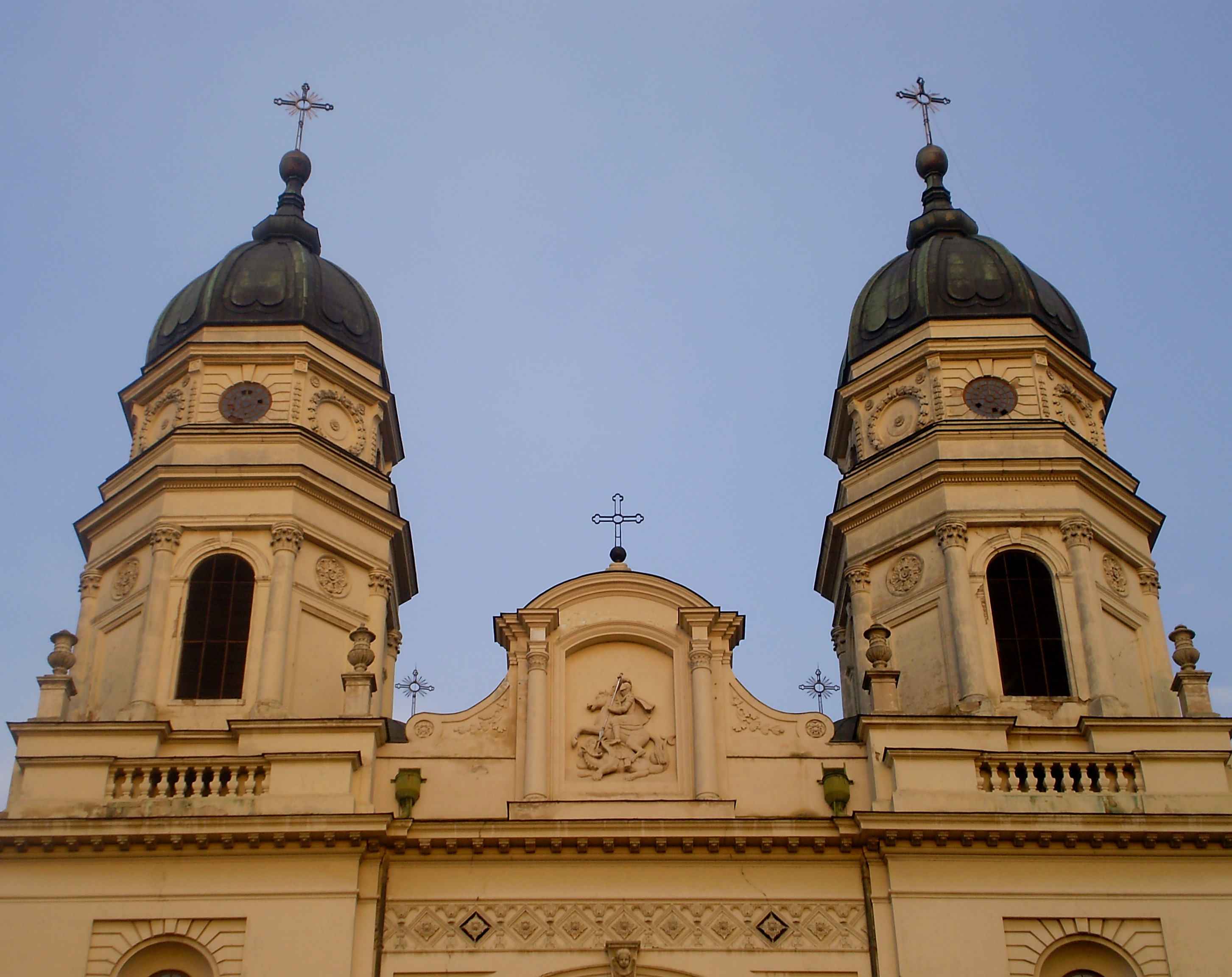 Metropolitan Orthodox Cathedral , detail , Iaşi ,Romania